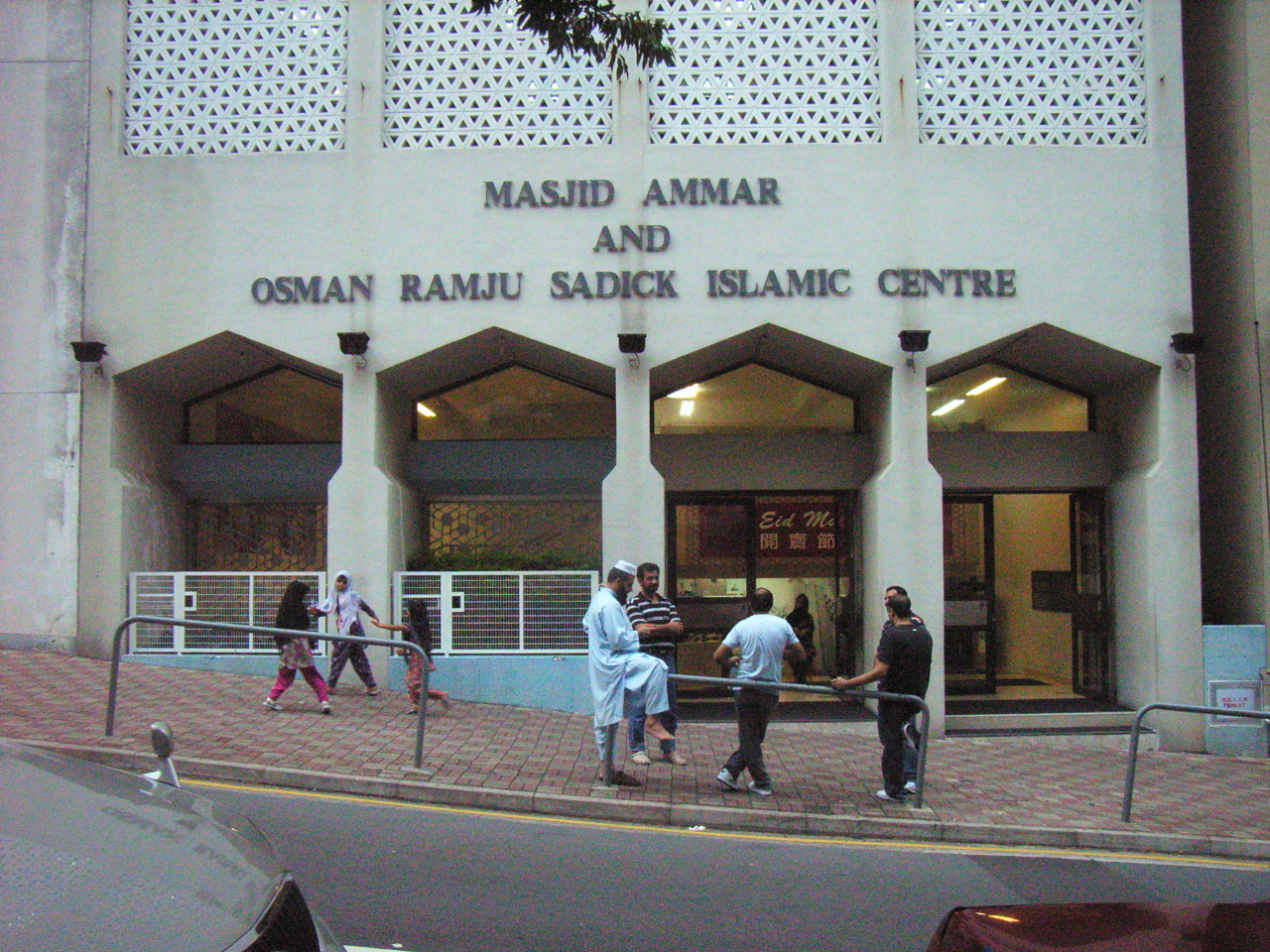 灣仔區 愛群道 黃昏 清真寺